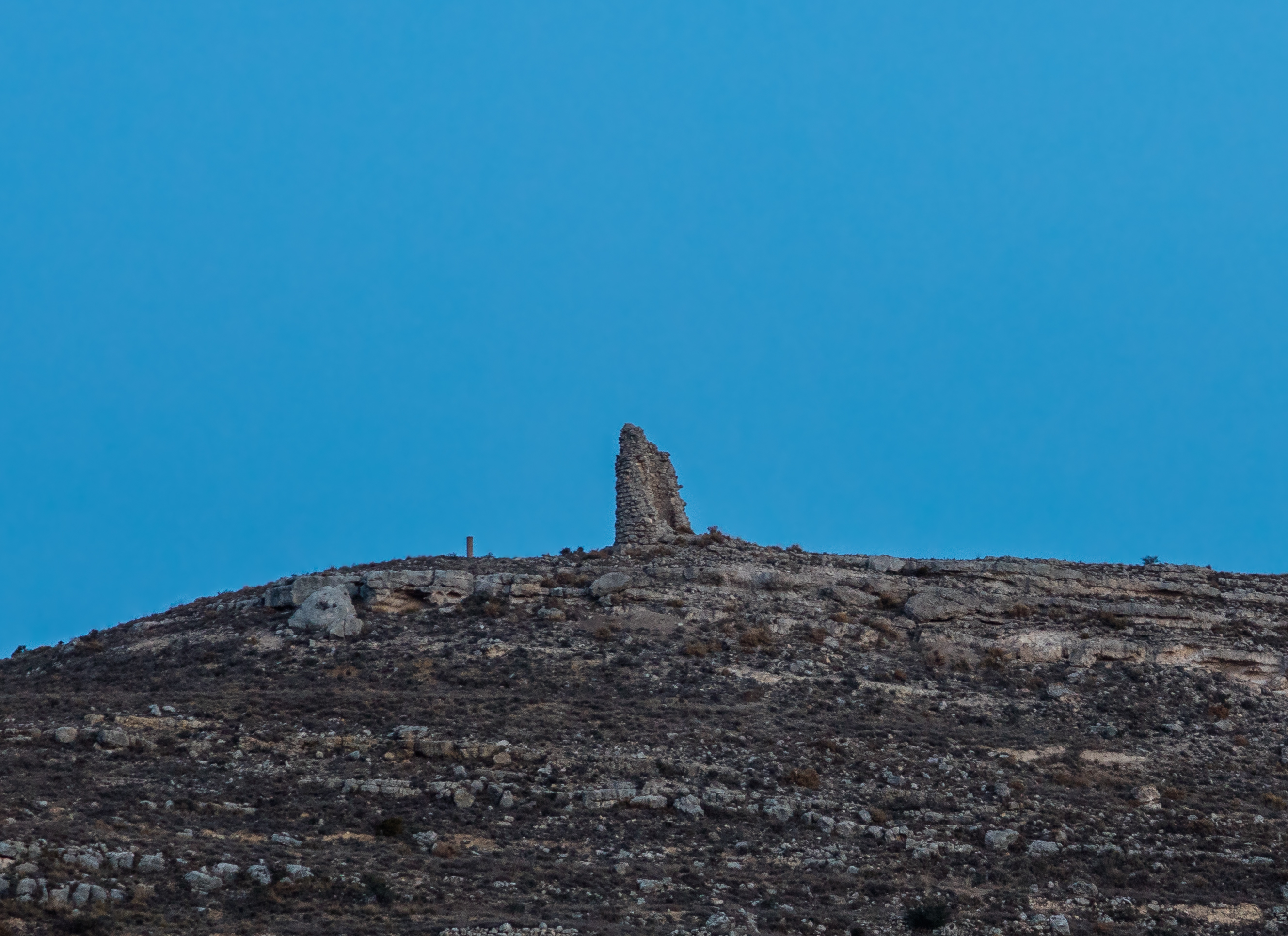 La Torrecilla, Maluenda, Zaragoza, Spain